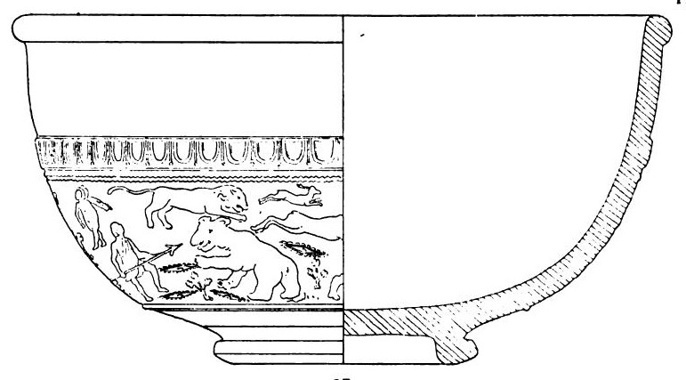 Form Drag. 37, in Joseph Dechelette, vases céramiques ornés de la Gaule romaine, vol. I, 1904, plate II.